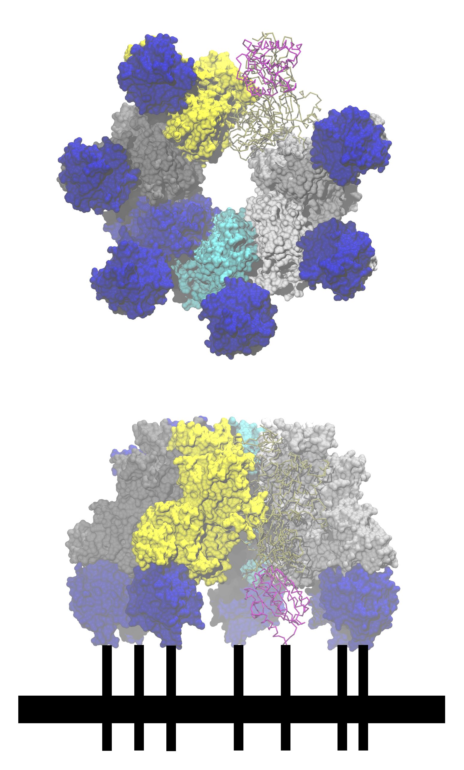 Surface model of the anthrax toxin PA-63 complexed with shortened ATR2 (heptameric), from two sides. The receptor molecules (blue) are incomplete, their continuation through the membrane is hinted. After PDB 1tzn. Ref.: D.B.Lacy et al. (2004). Structure of heptameric protective antigen bound to an anthrax toxin receptor: a role for receptor in pH-dependent pore formation. In: Proc Natl Acad Sci U S A, 101, 13147-13151. PMID 15326297 This image was created with VMD